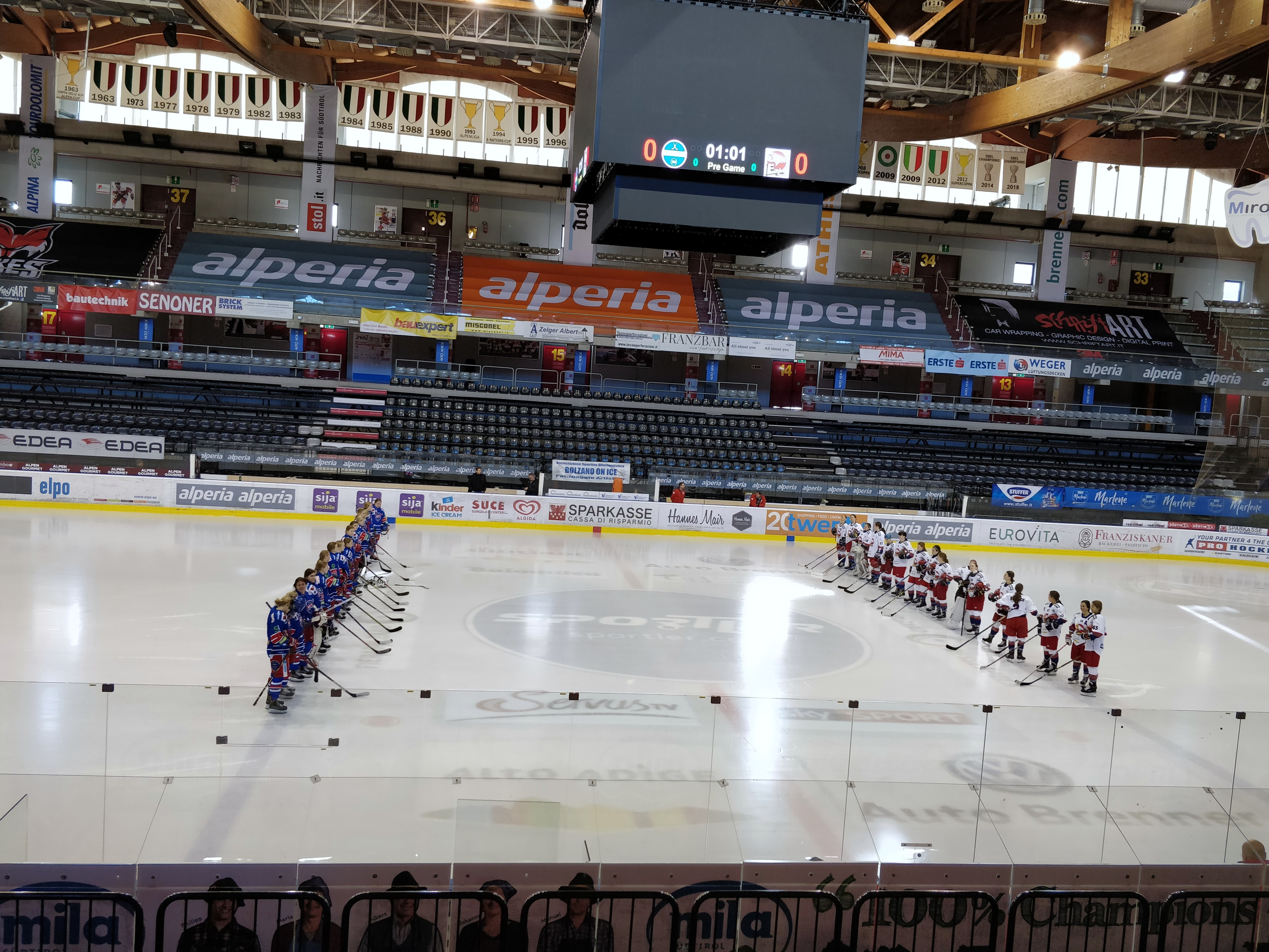 19 January 2020. EWHL 2019-2020 match between Hvidovre Select (DEN) and EV Bozen Eagles (ITA) in Bolzano